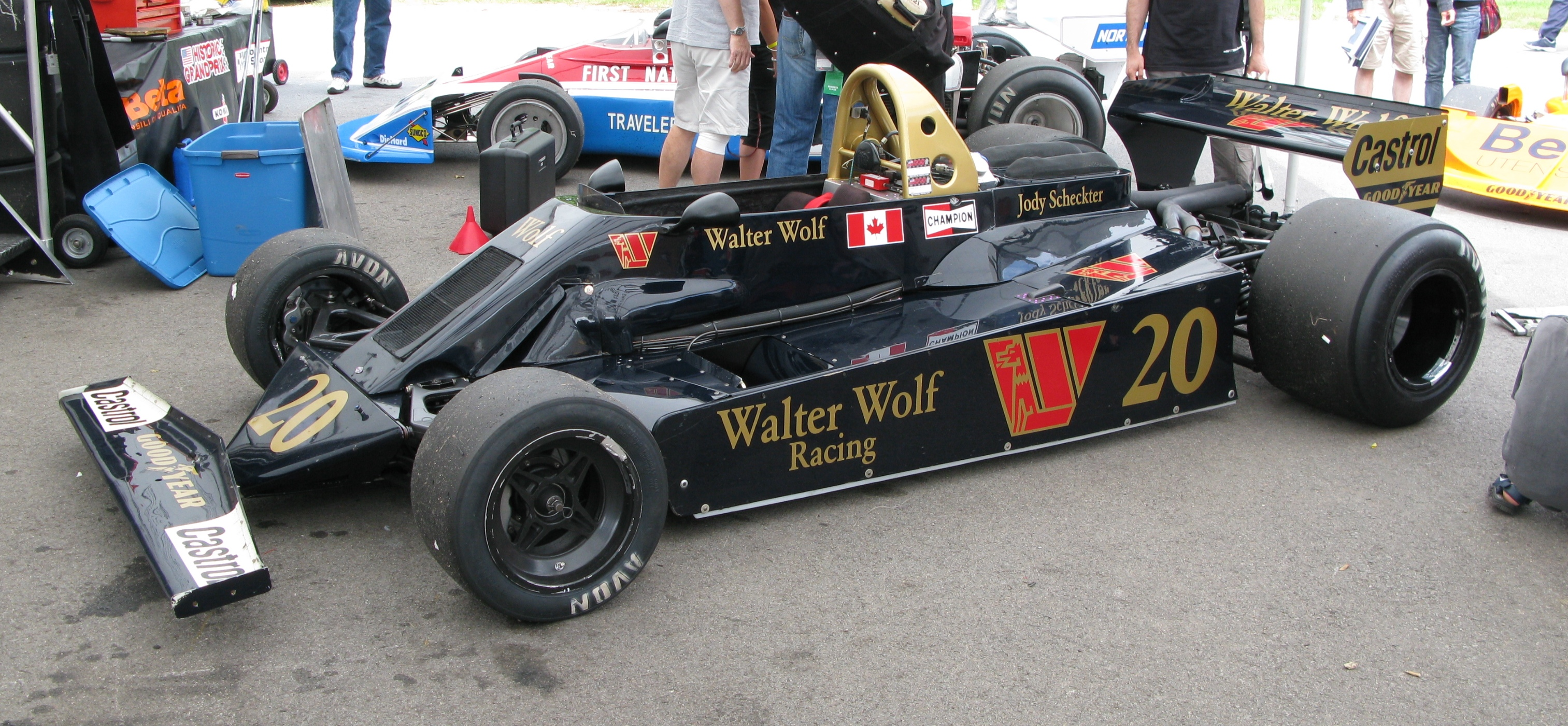 The Wolf WR6 Formula One car, pictured during the Sommet des Légends race meeing, Circuit Mont-Tremblant, Quebec, Canada. July 2009.